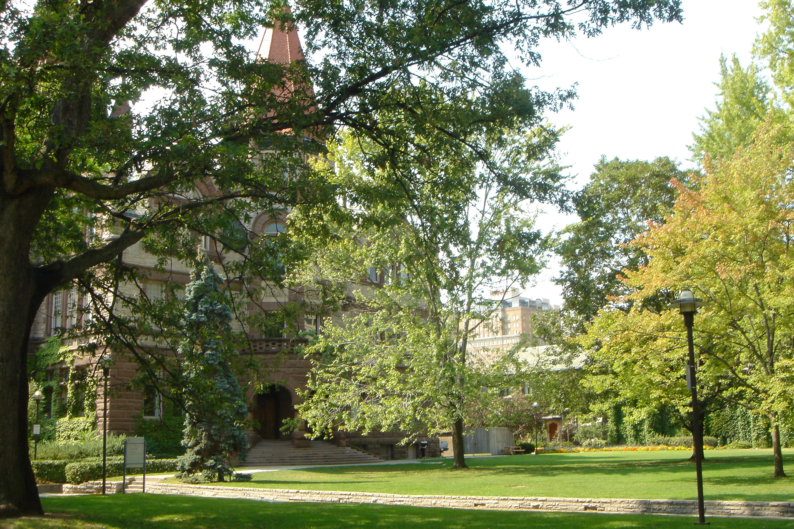 The grounds outside of the Old Vic building at Victoria College, University of Toronto